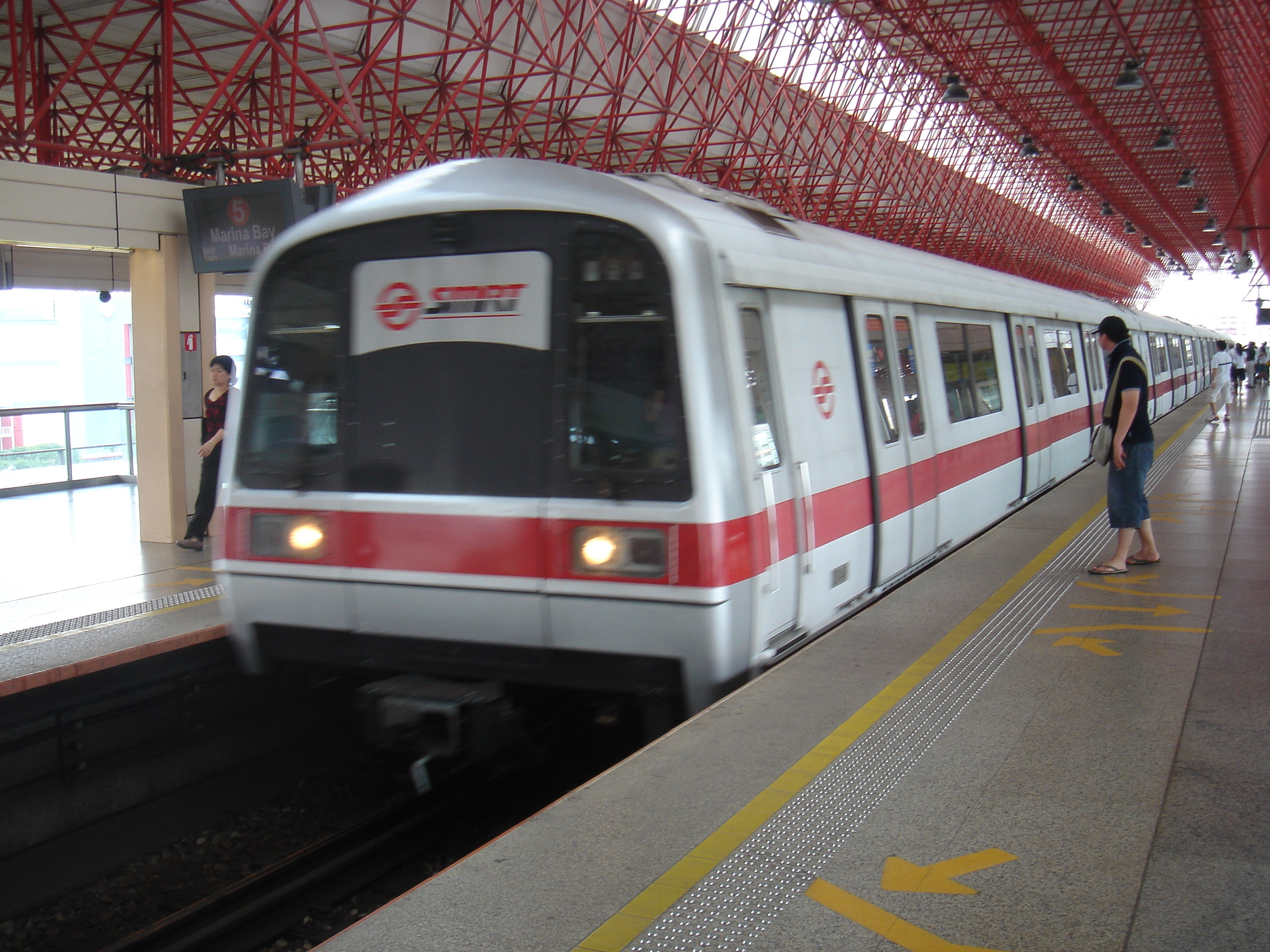 A C151 train approaching Jurong East MRT Station.